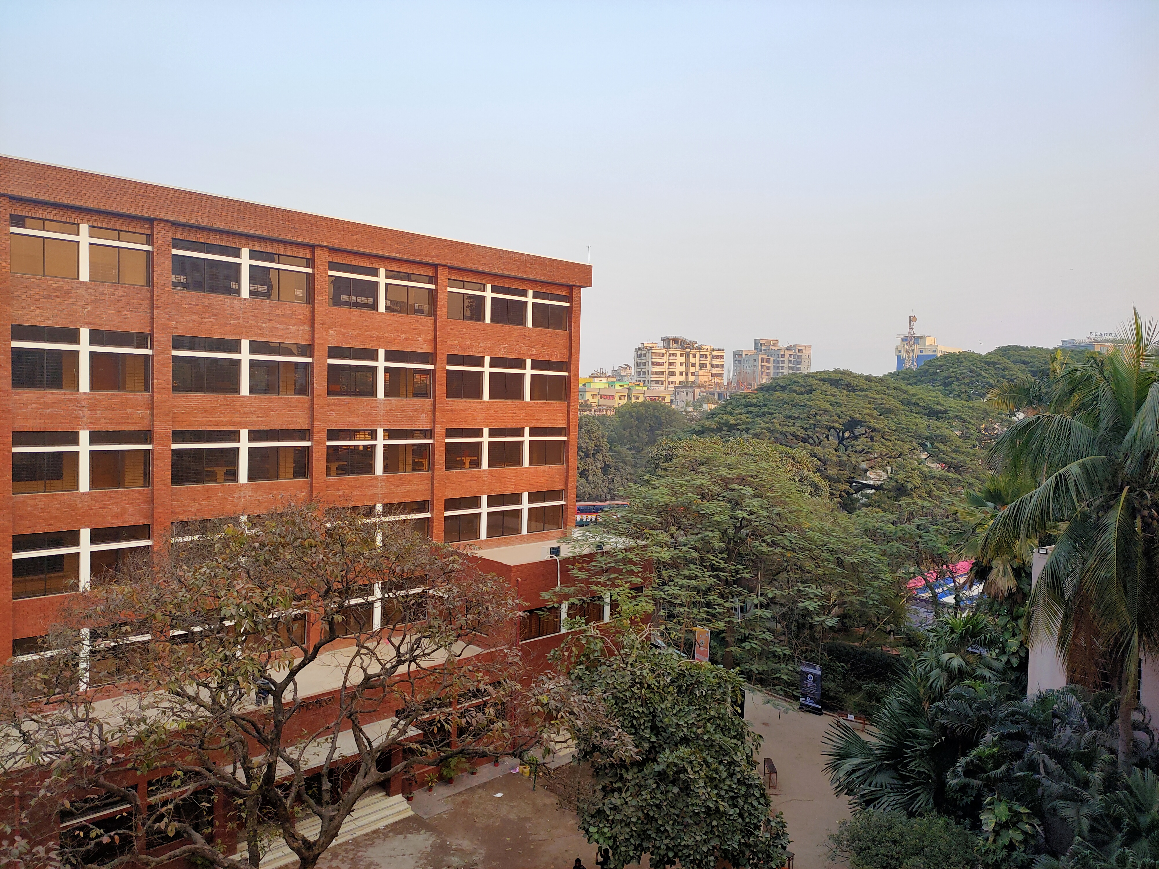 Peixotto Building of Notre Dame College, Dhaka